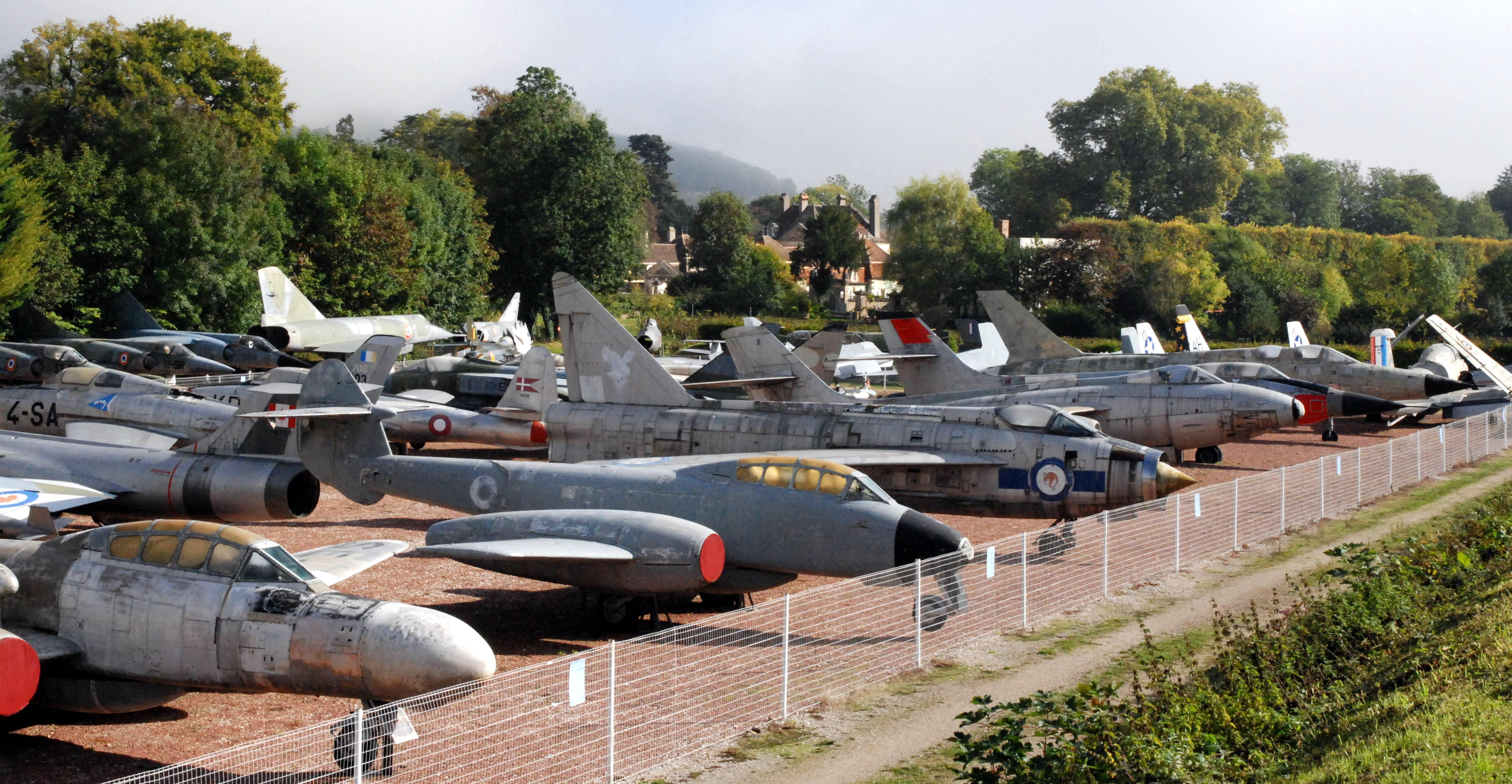 Photo ref; Nikon-D80-2014-DSC_1368 (Edited)